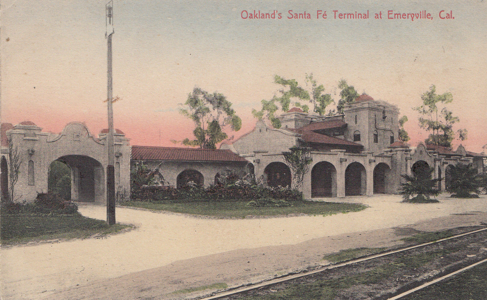 Early divided back postcard of Oakland station, the western terminus of the Santa Fe Railroad